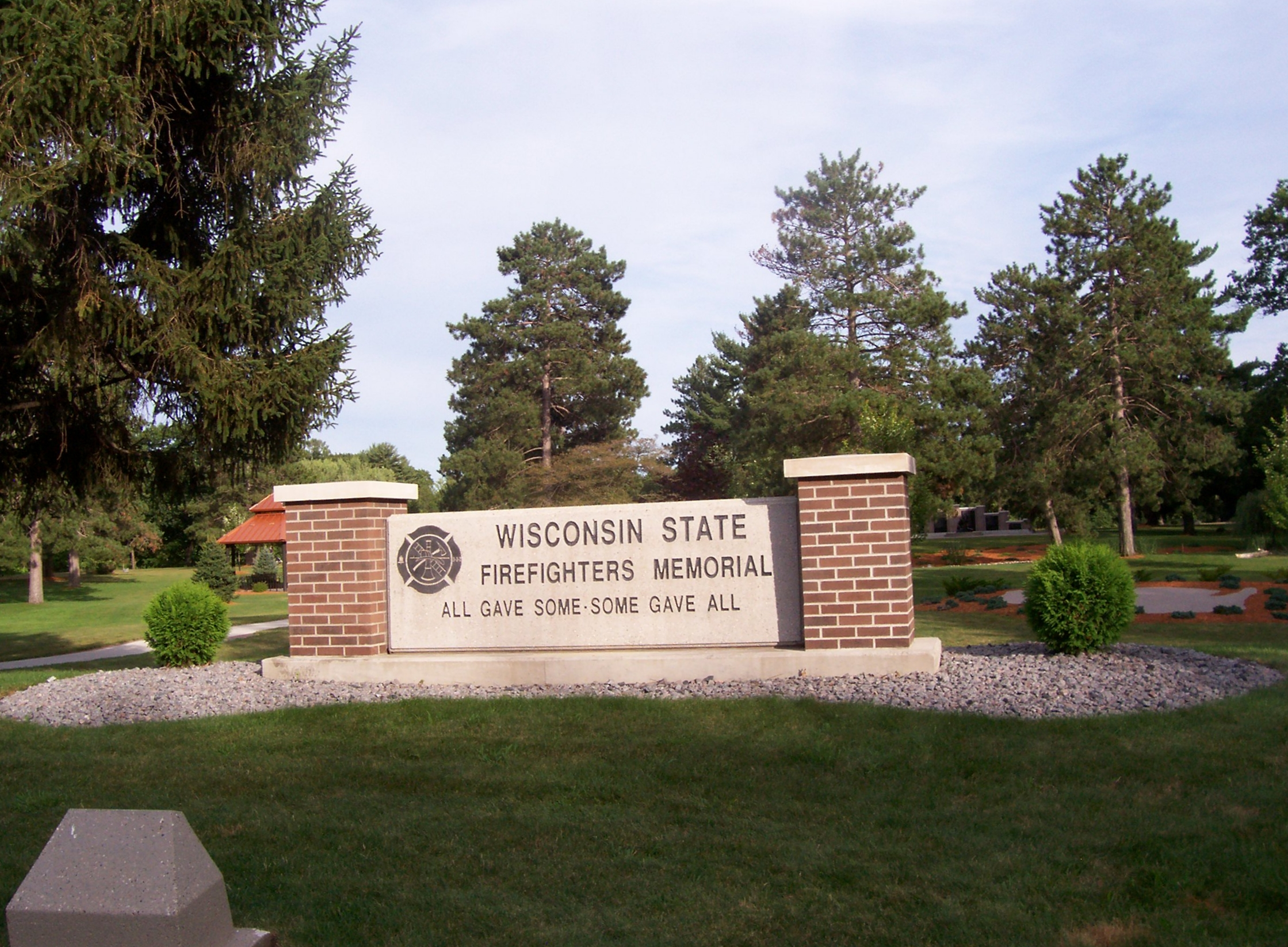 The sign marking the Wisconsin State Firefighters Memorial near Wisconsin Rapids, Wisconsin along Wisconsin Route 73 / Wisconsin Highway 54.